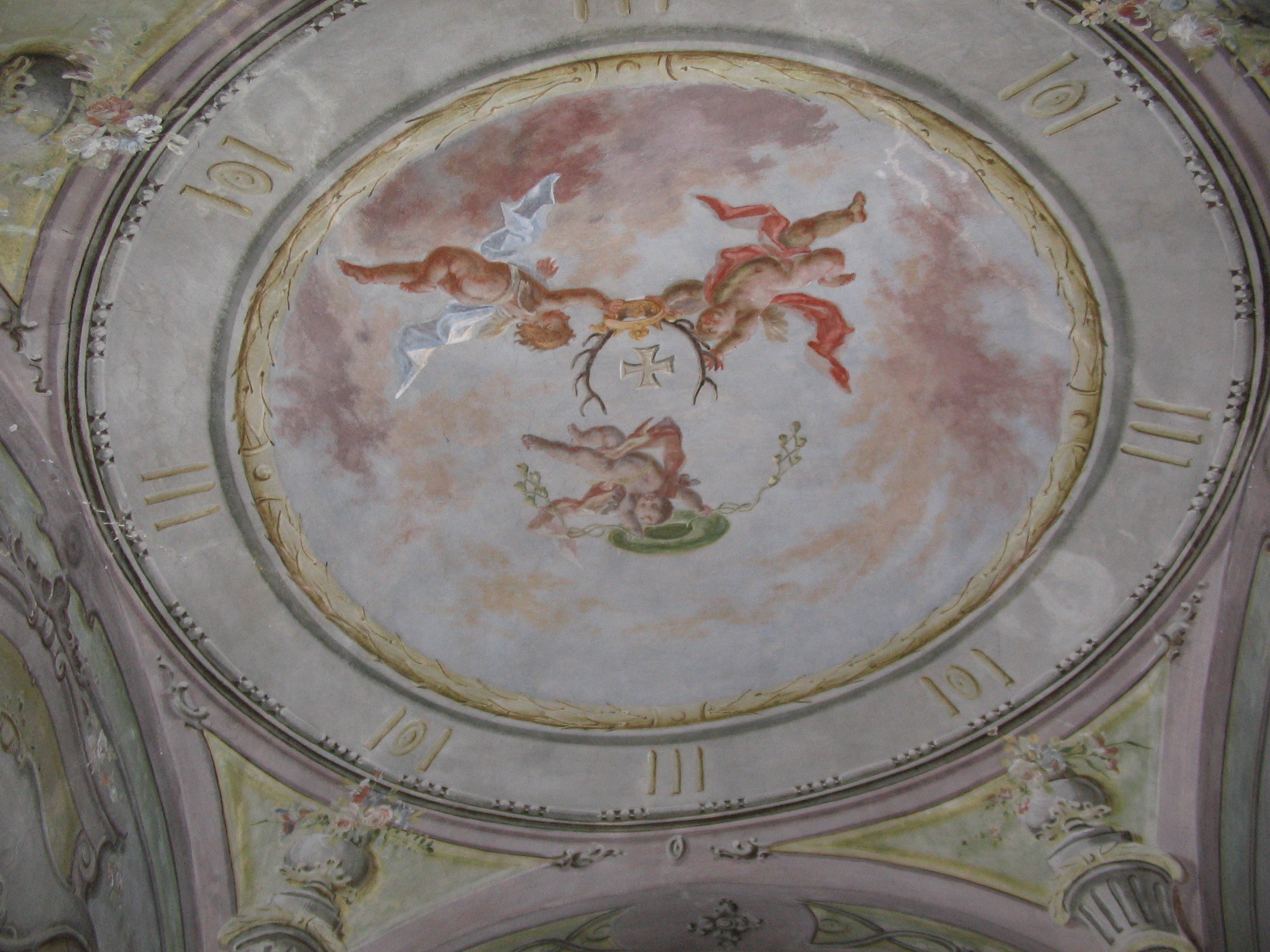 Three putto